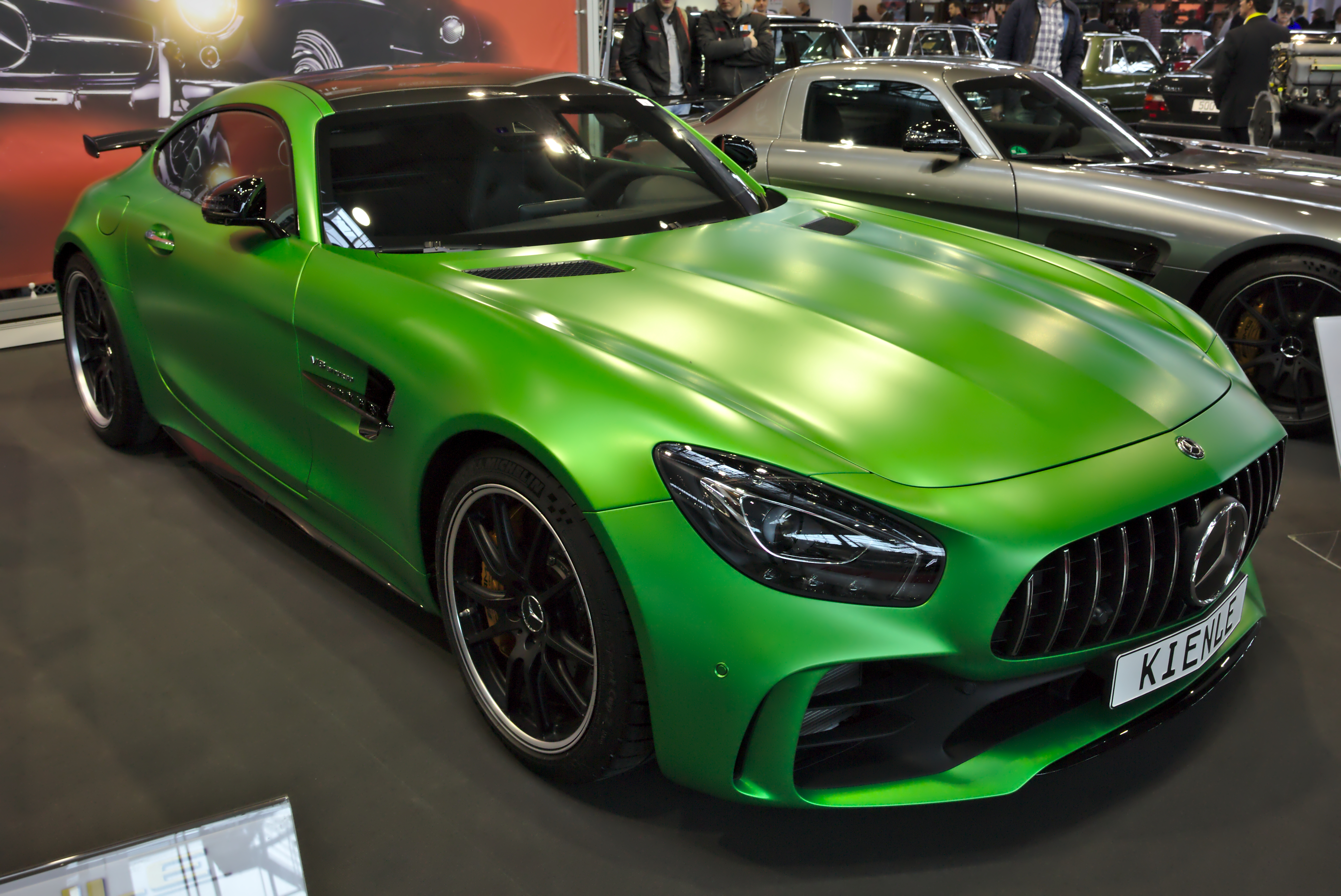 Mercedes-AMG GT R at Retro Classics 2018